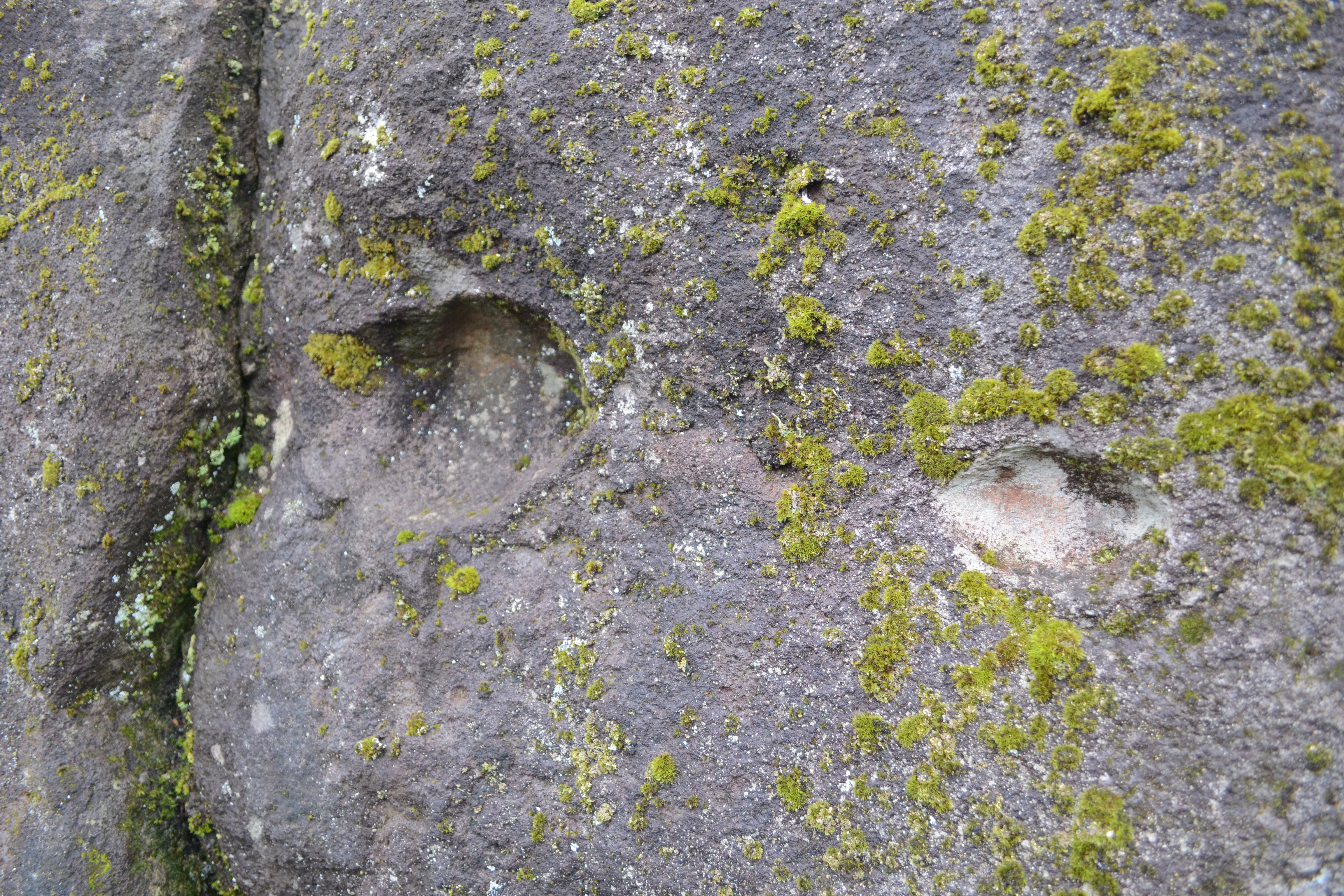 Smaller, lichen-covered pits on the Skystone